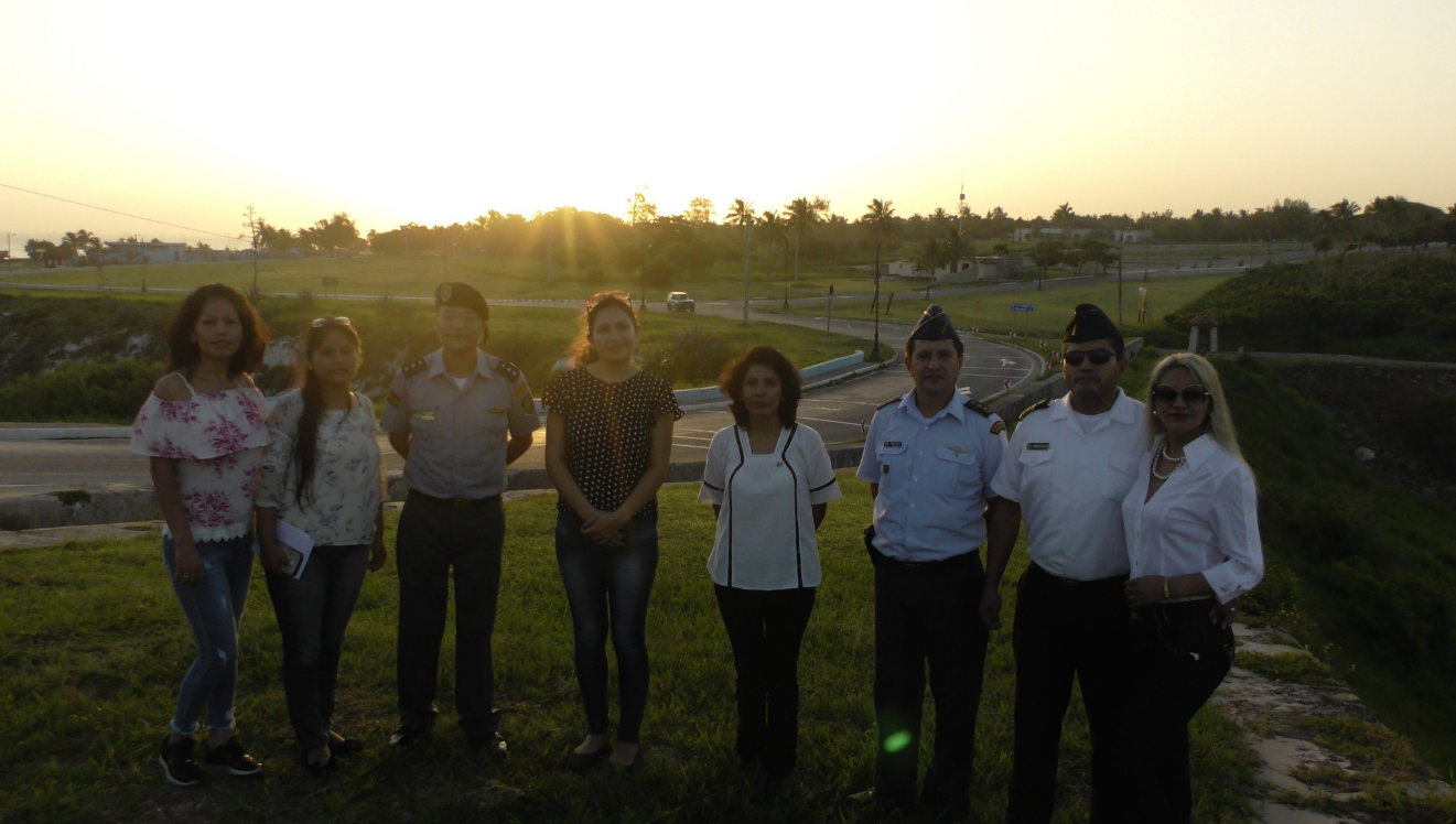 Ariana Campero con delegados militares en Cuba